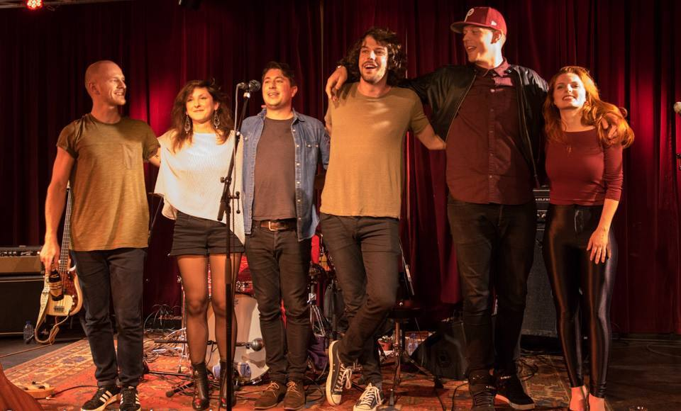 Jaimi Faulkner Band